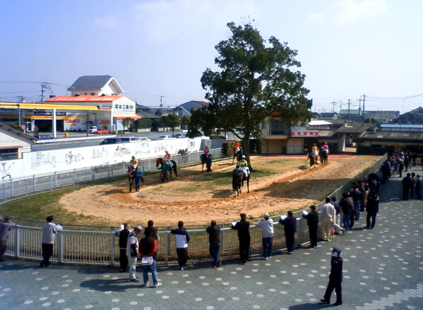 Arao Racecource 荒尾競馬場